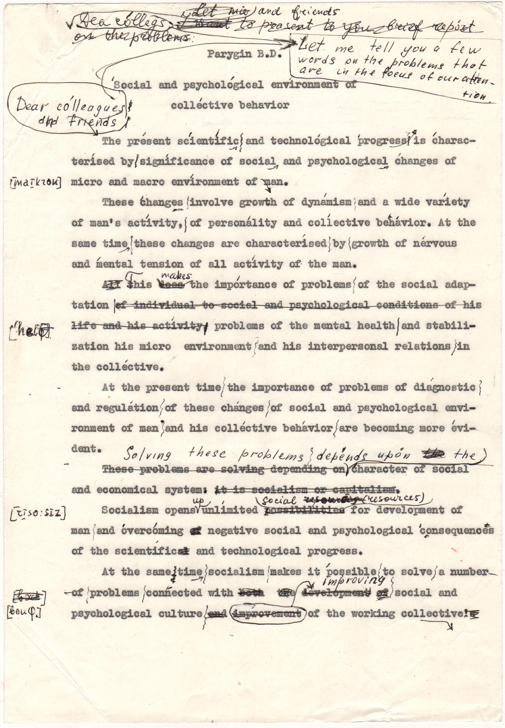 Page with text/ Social and psychological environment of collective`s behavior // European association of Experimental Social psychology: VII-th General meeting. — Varna, 1987.